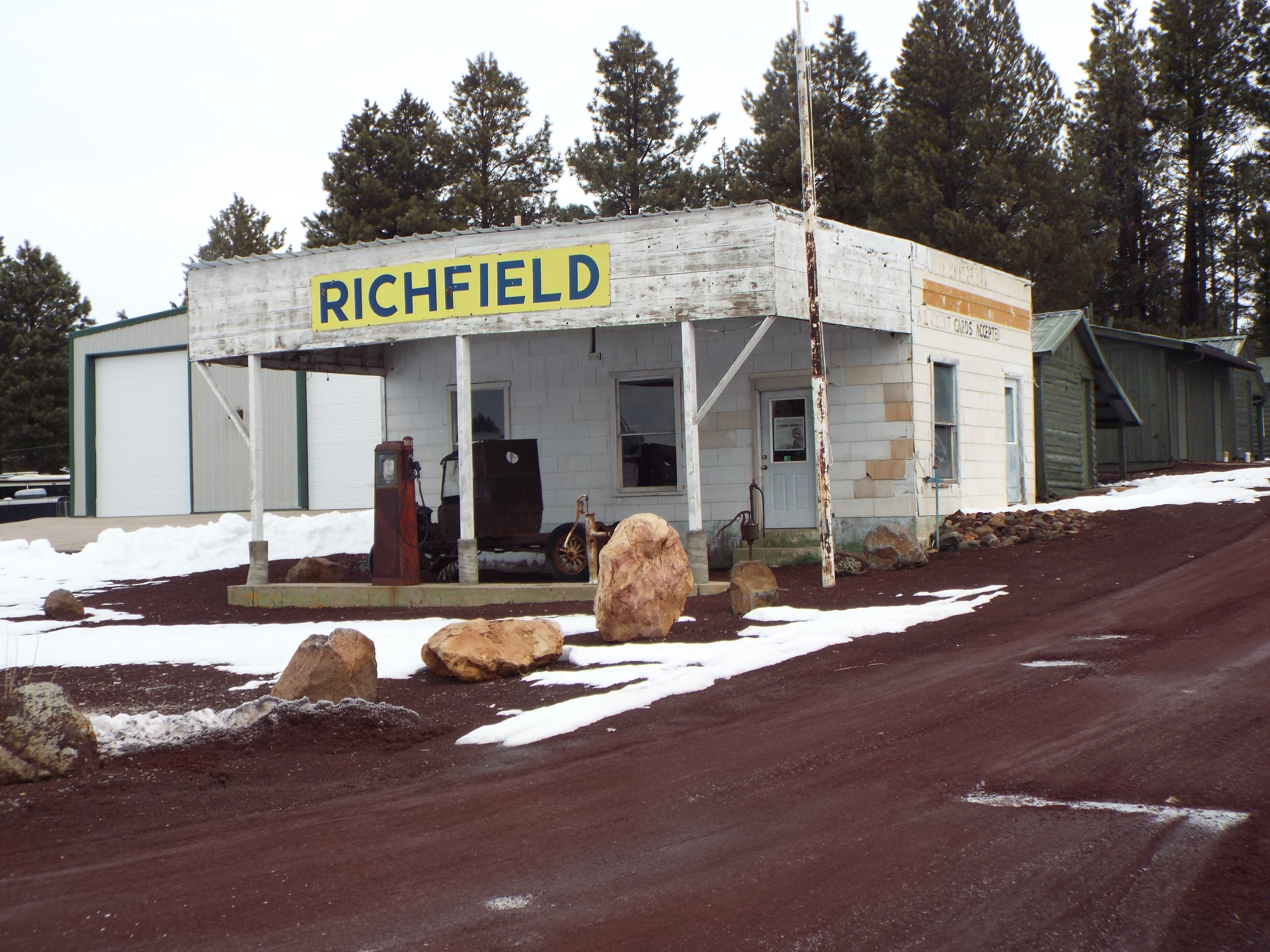 The Richfield Service Station-1920 in Bellemont, Az